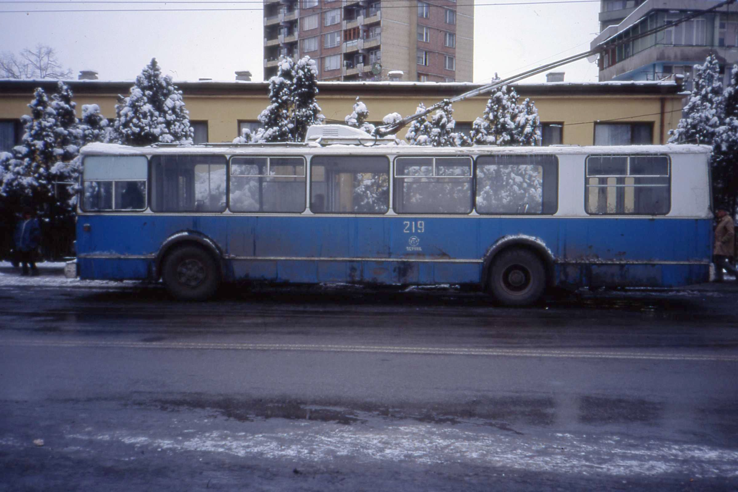 Pernik ZIU9 trolleybus nr 219. A route map is found here.